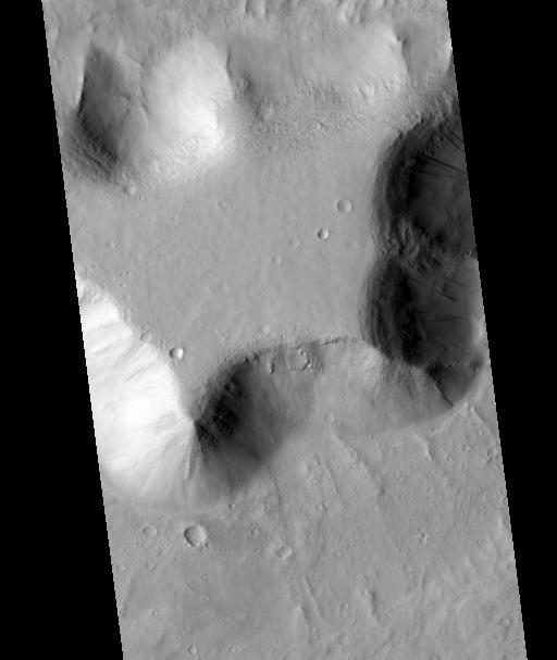 Wide view of lobate debris apron, as seen by hirise. Location is 29.5 N and 288.3 E.